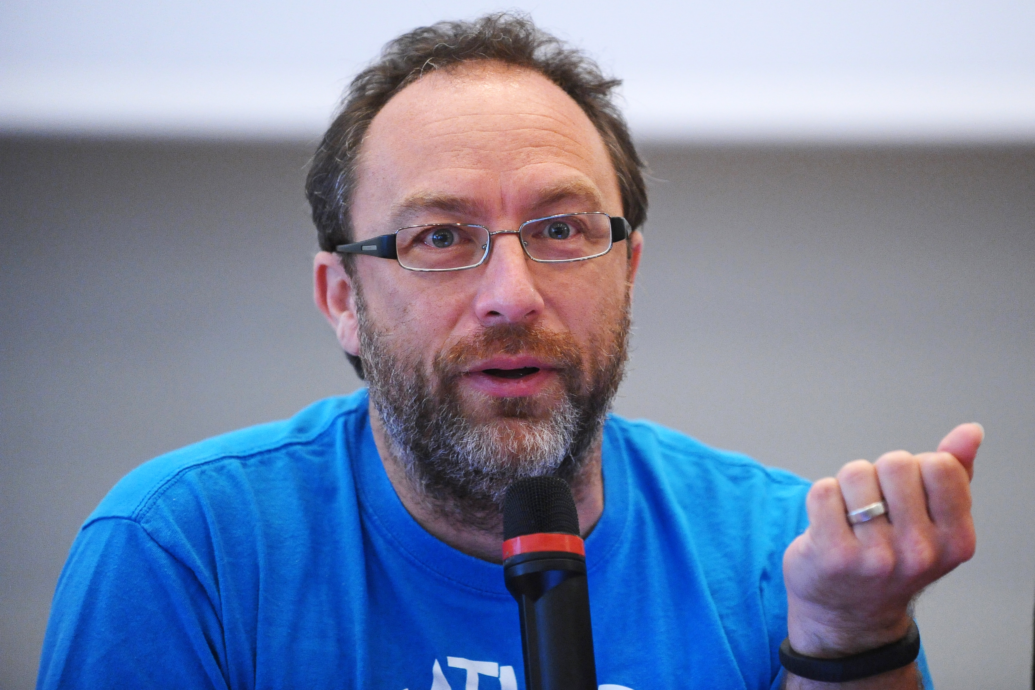 Wikimedia Conference 2013 board meeting.